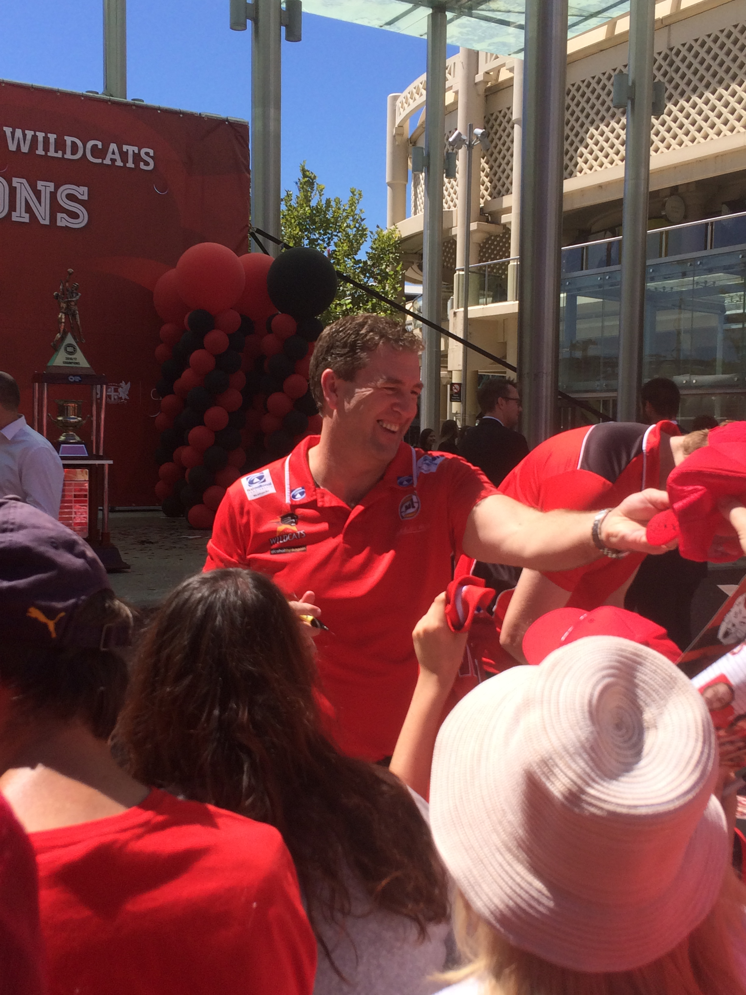 Coach Trevor Gleeson at the Perth Wildcats' 2017 championship celebration